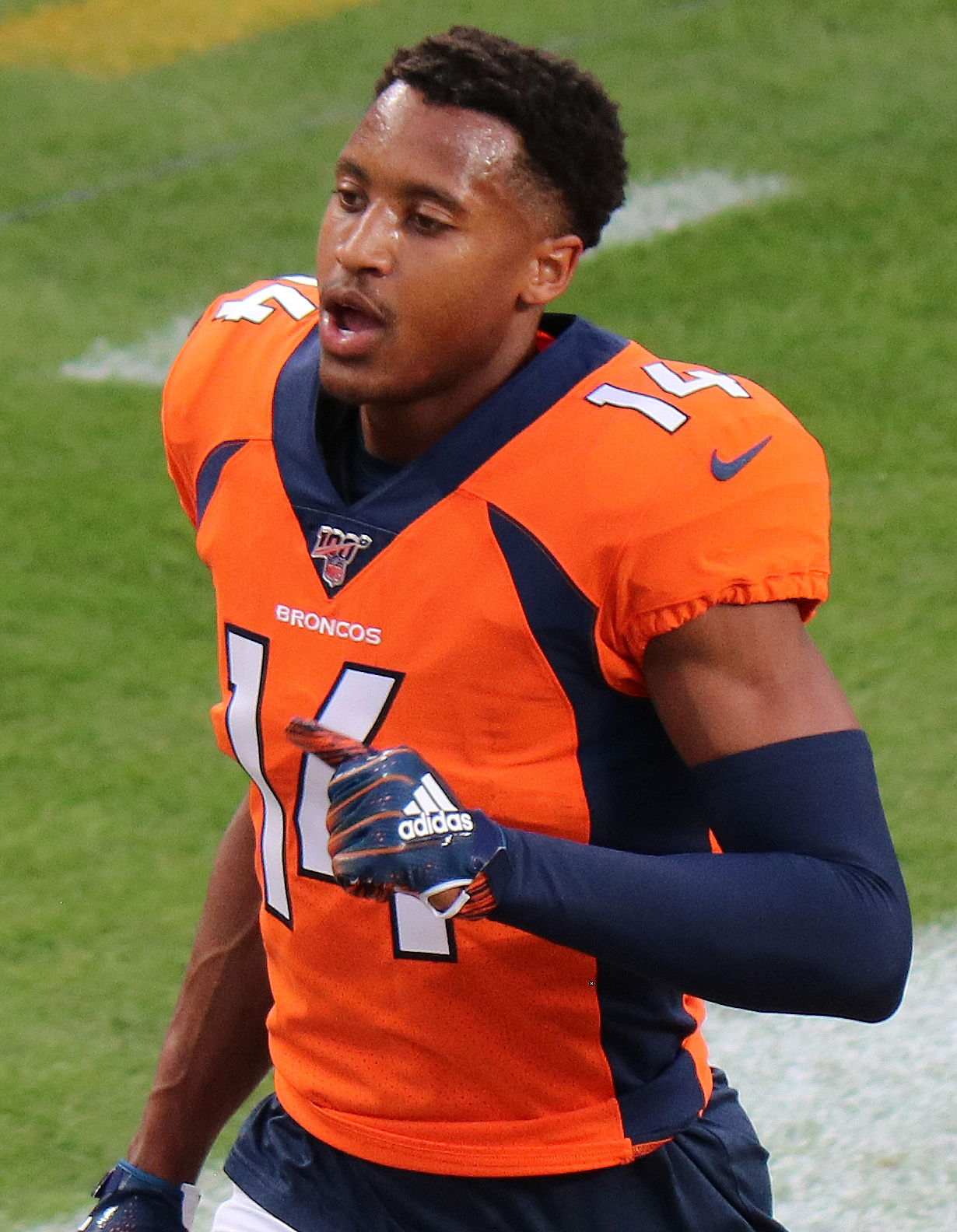 Courtland Sutton, a National Football League player.